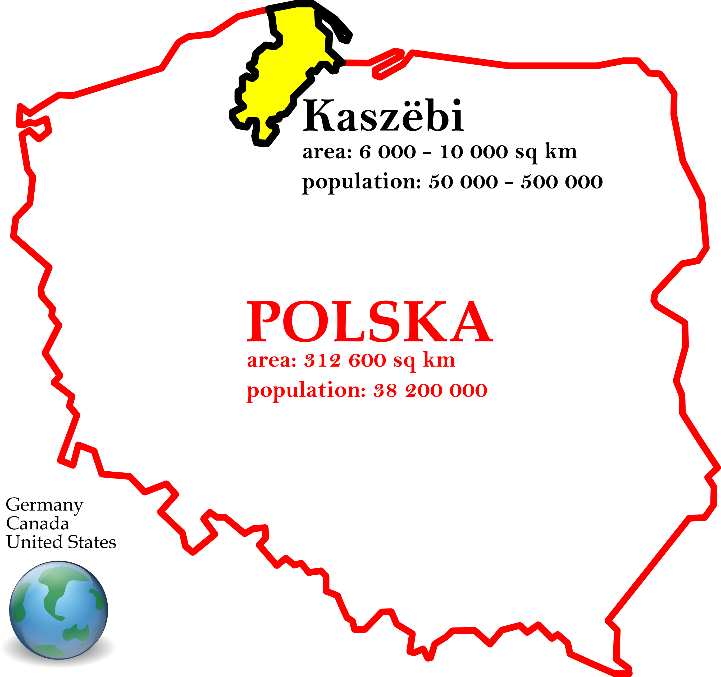 Main area inhabited by Kashubians in Poland, according to wikipedian Wames